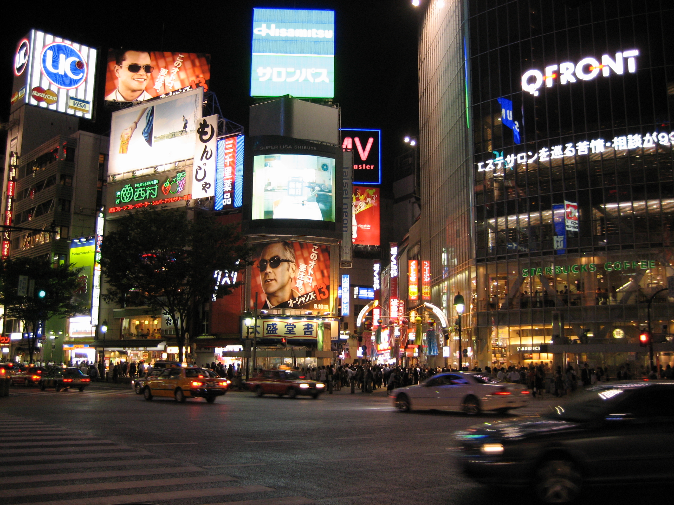 This square is seen prominently in Lost in Translation.